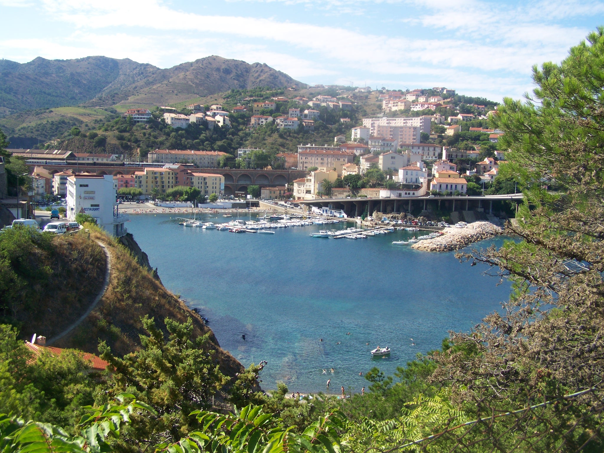 View on the city and beach of Cerbère in Pyrénées-Orientales, France.